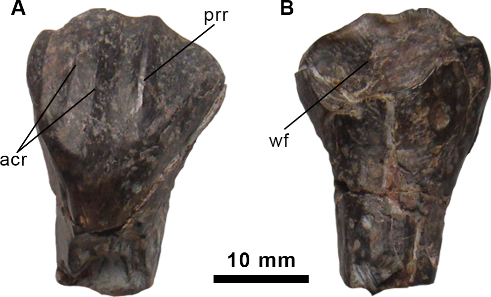 Dentary tooth of the holotype specimen of Morelladon beltrani (CMP-MS-03). Dentary tooth in medial or lingual (A) and lateral or labial (B) views. Abbreviations: acr, accessory ridge; prr, primary ridge; wf, wear facet.